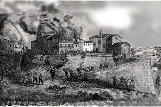 Town of Castelluccio sacked and put on fire by Chiavone and his brigands